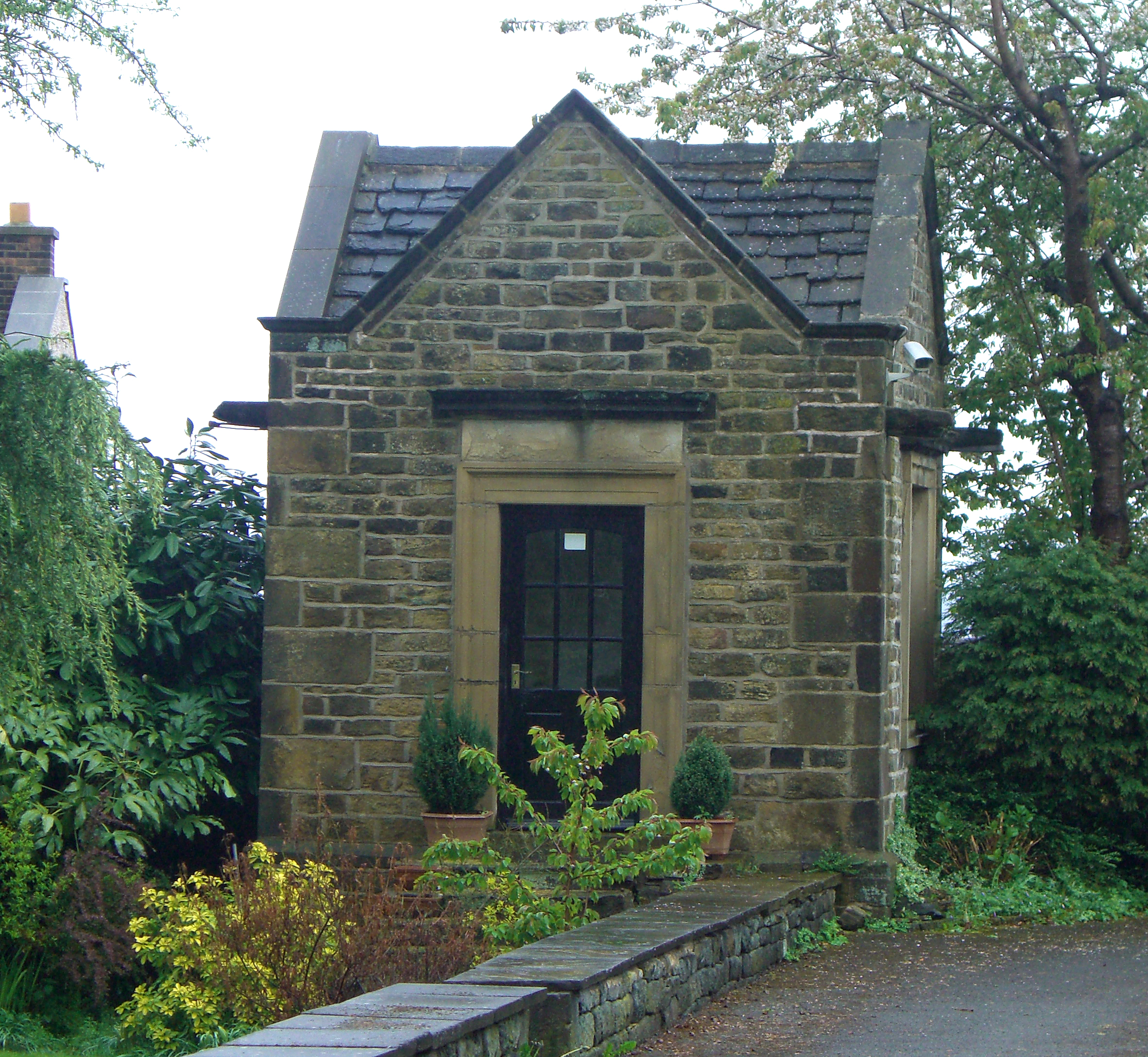 The Falconry at Birley Old Hall at Fox Hill, Sheffield, England. This Grade II listed building stands in the small garden of Birley Old Hall, it was formerly a gazebo and summer house and is now known as the falconry. It dates from 1705 when the second phase of the house was built.